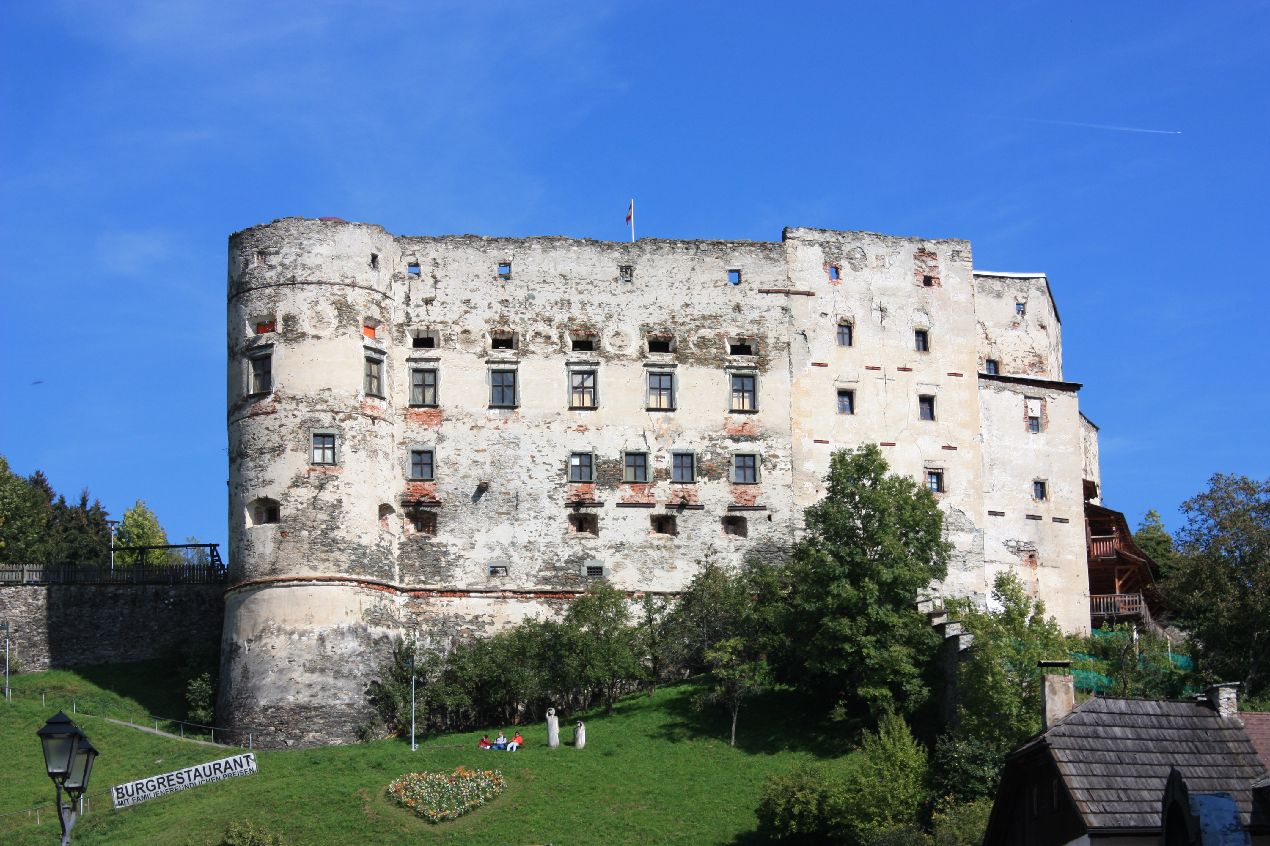 Old castle Locality:Schloßbichl Community:Gmünd